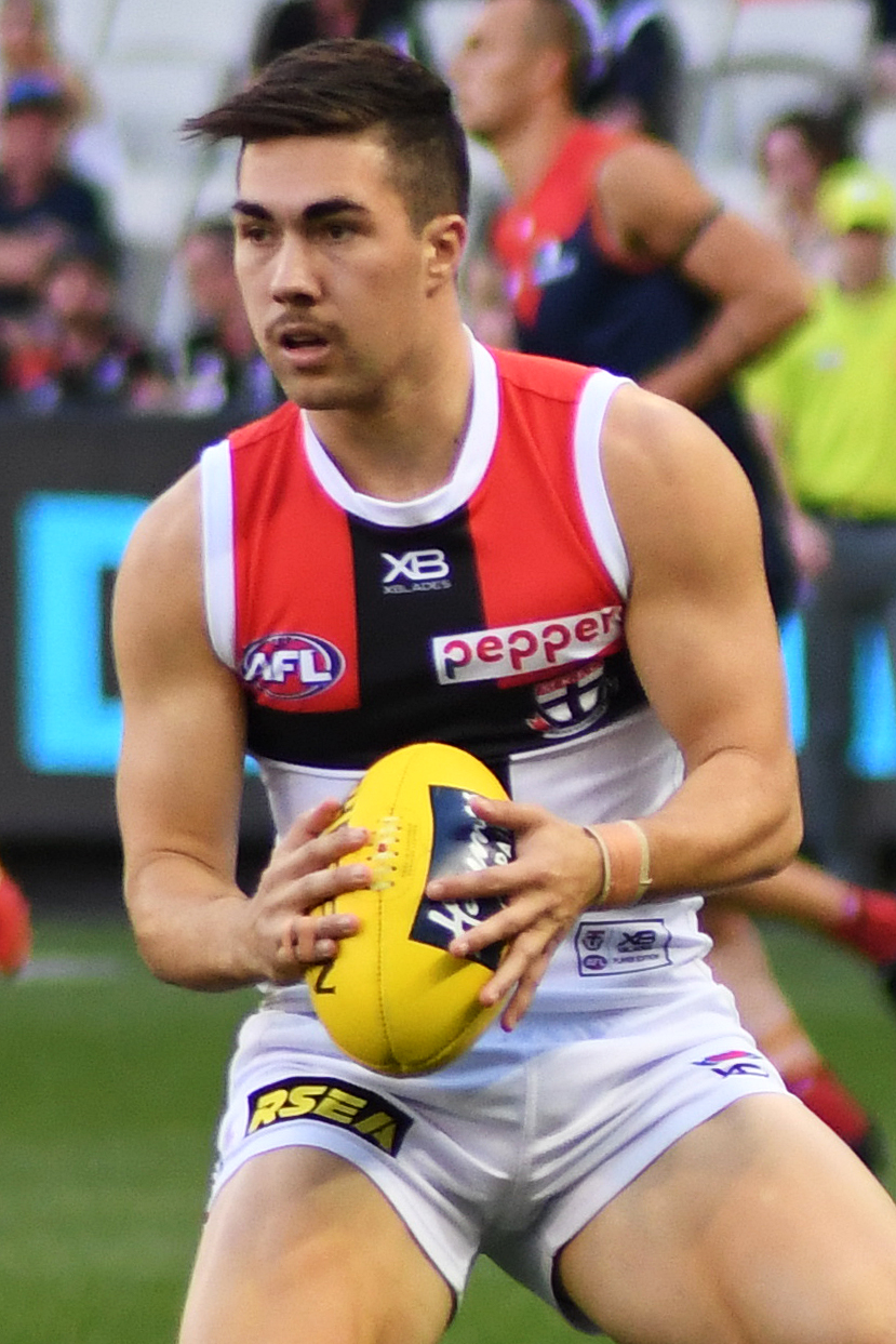 Jade Gresham of St Kilda during the 2019 AFL round 5 match between Melbourne and St Kilda at the Melbourne Cricket Ground on Saturday, 20 April 2019 in Melbourne, Victoria.